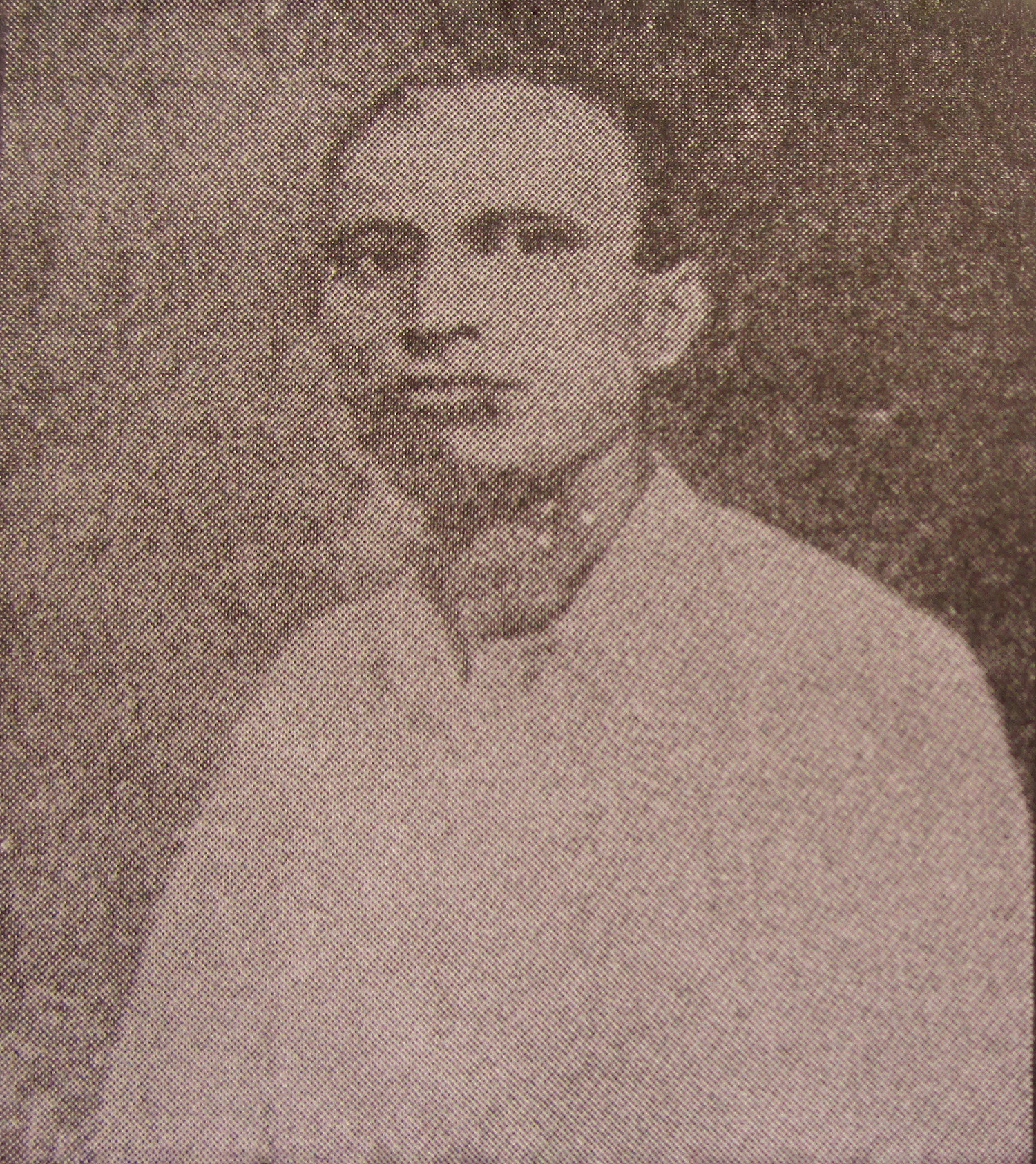 Tarakeshwar Dastidar